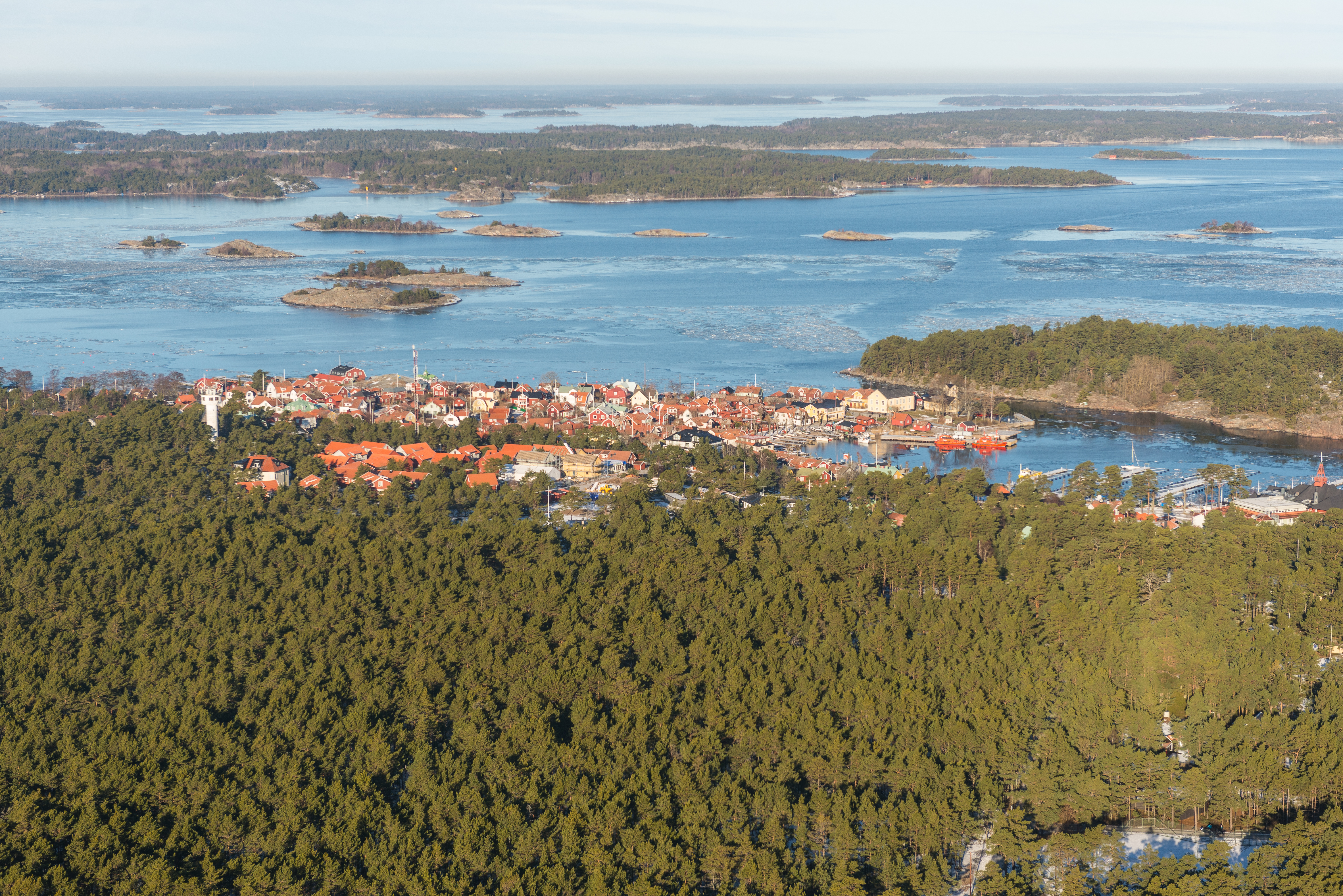 Sandhamn